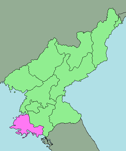 area map of Hwanghaenam Province